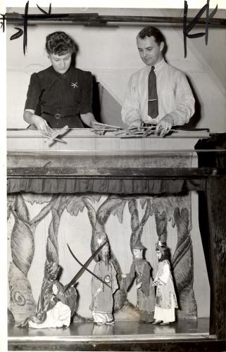 Pauls with puppets